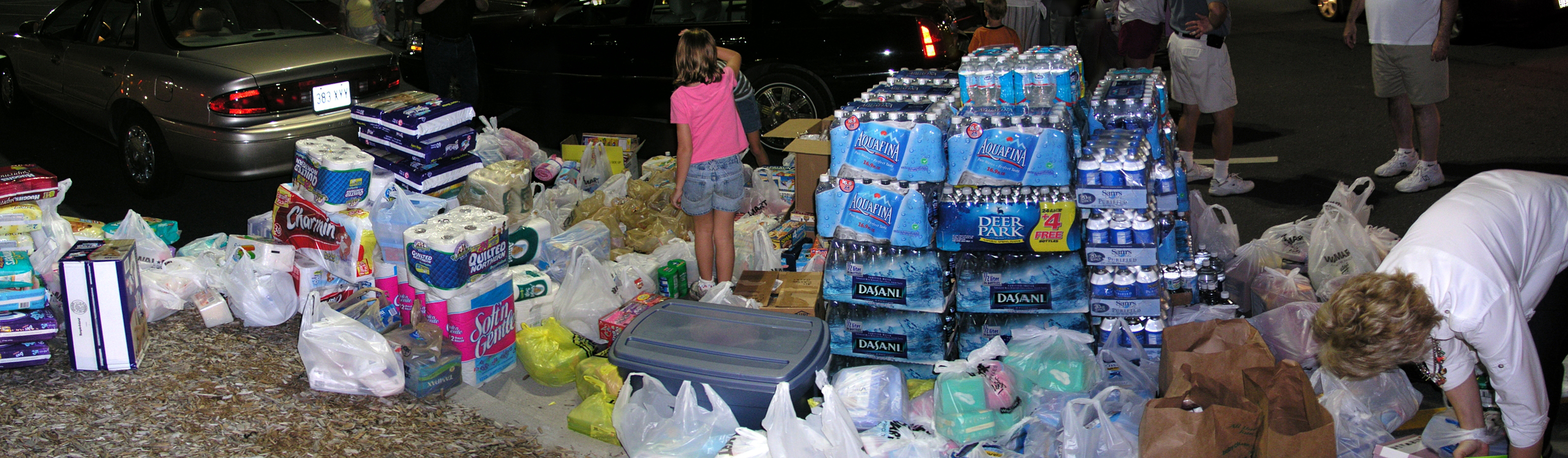 Members of Holy Cross Anglican Church prepare to load up supplies for NO refugees. The church will be working well within the affected zone for an indeterminate amount of time. The bus that will carry the supplies was already half-full at the time this picture was taken.